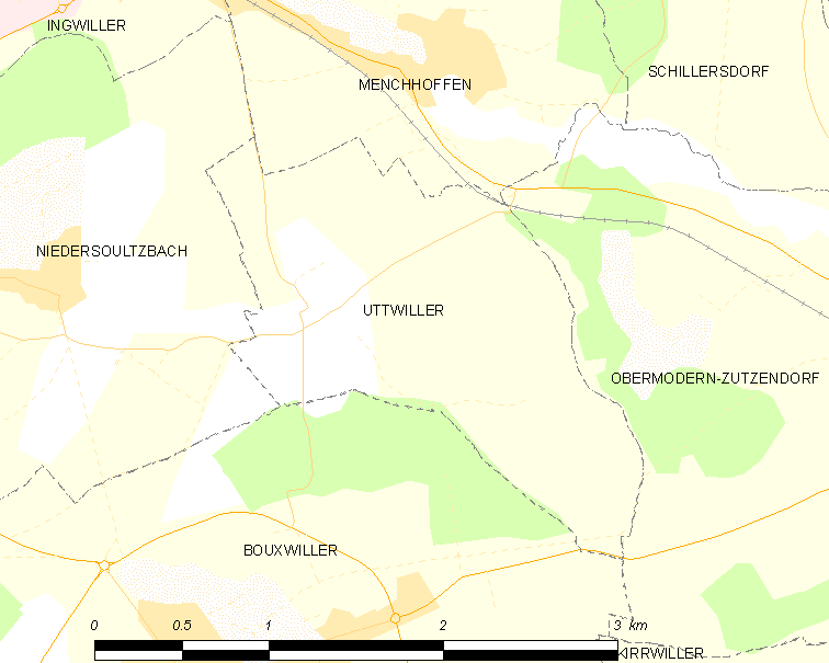 Map of French municipality